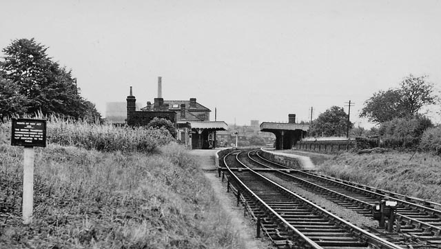 Braintree & Bocking Station. View eastward, towards Witham; ex-GER Bishop's Stortford - Witham line, closed west of Braintree 3/3/52 (except goods to Felsted until 20/6/70; line from Witham now electrified - and 'Bocking' dropped.